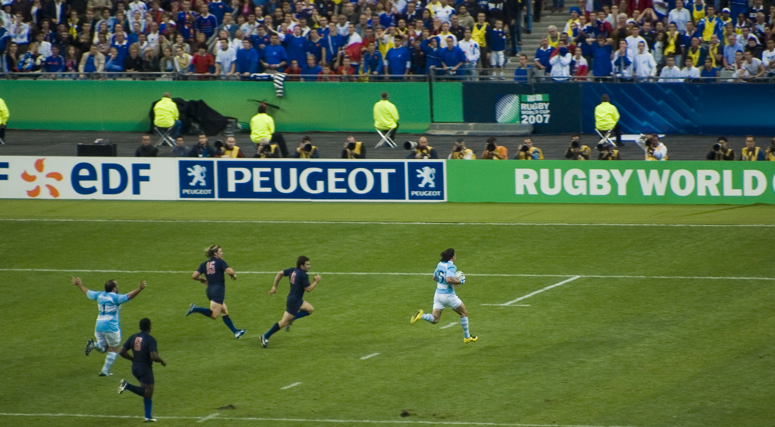 Corleto on his way to the try. France - Argentina. Rugby world cup 2007 at the Stade de France in Paris.